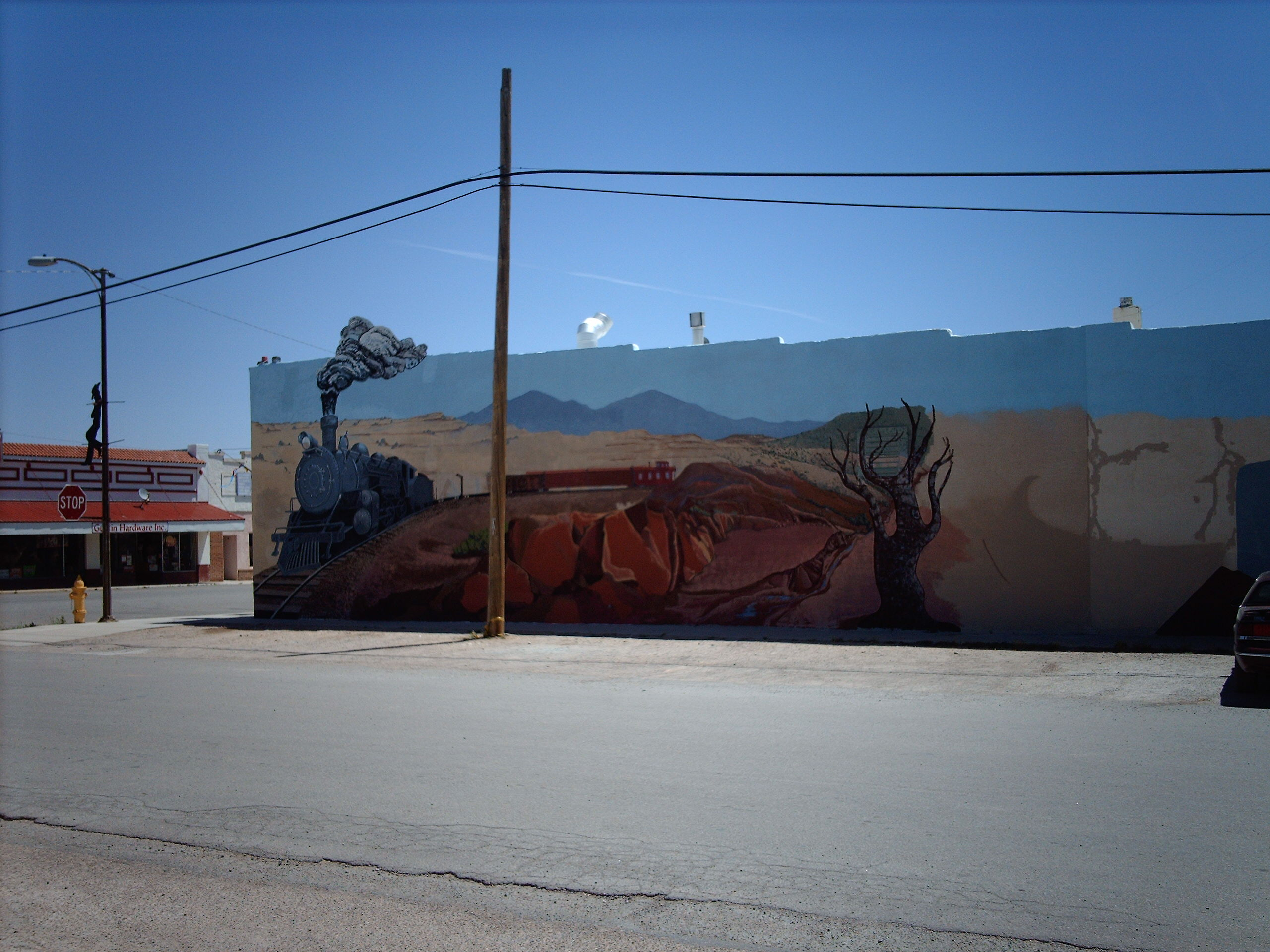 Wall in Mountainair